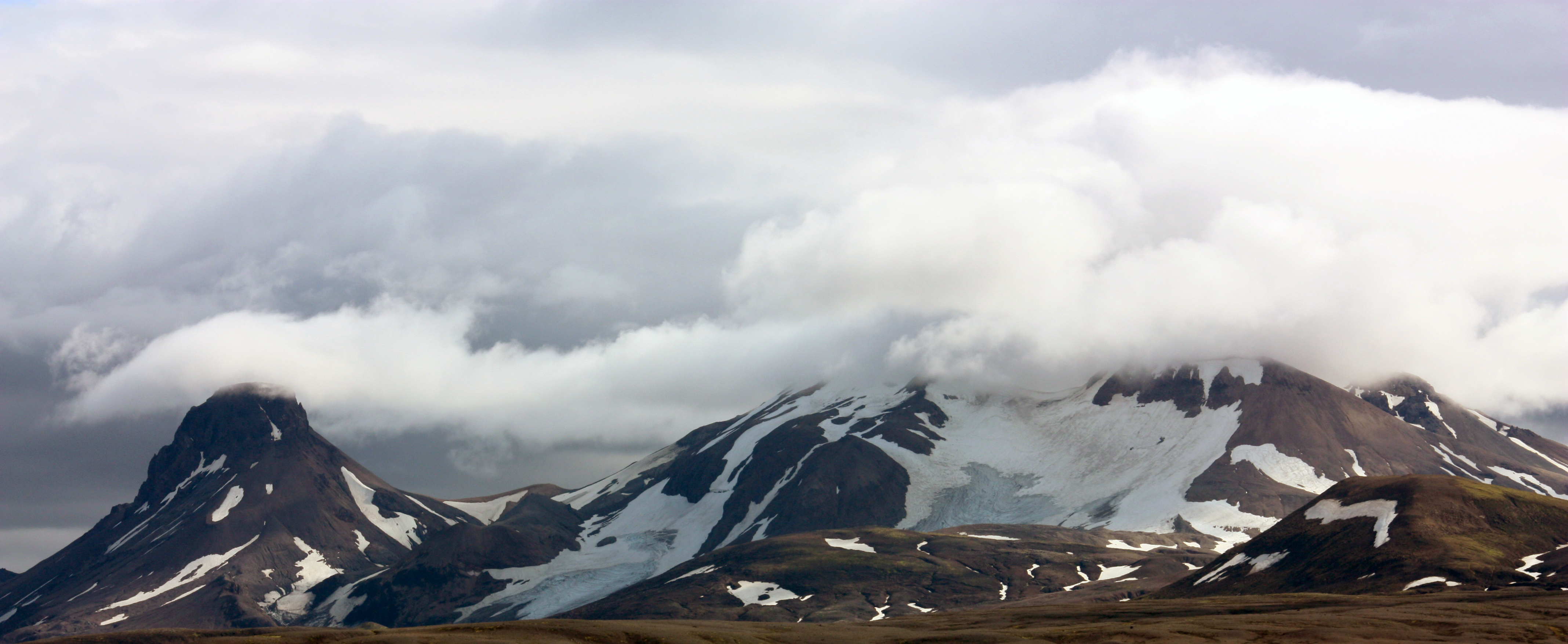 Kerlingarfjöll (Iceland), a view form Kjölur (F35)